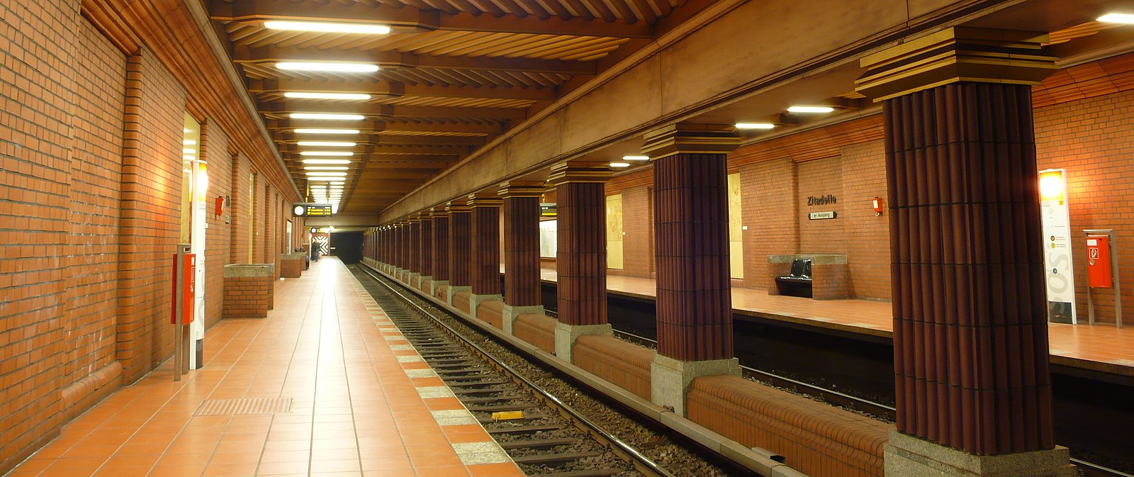 Zitadelle